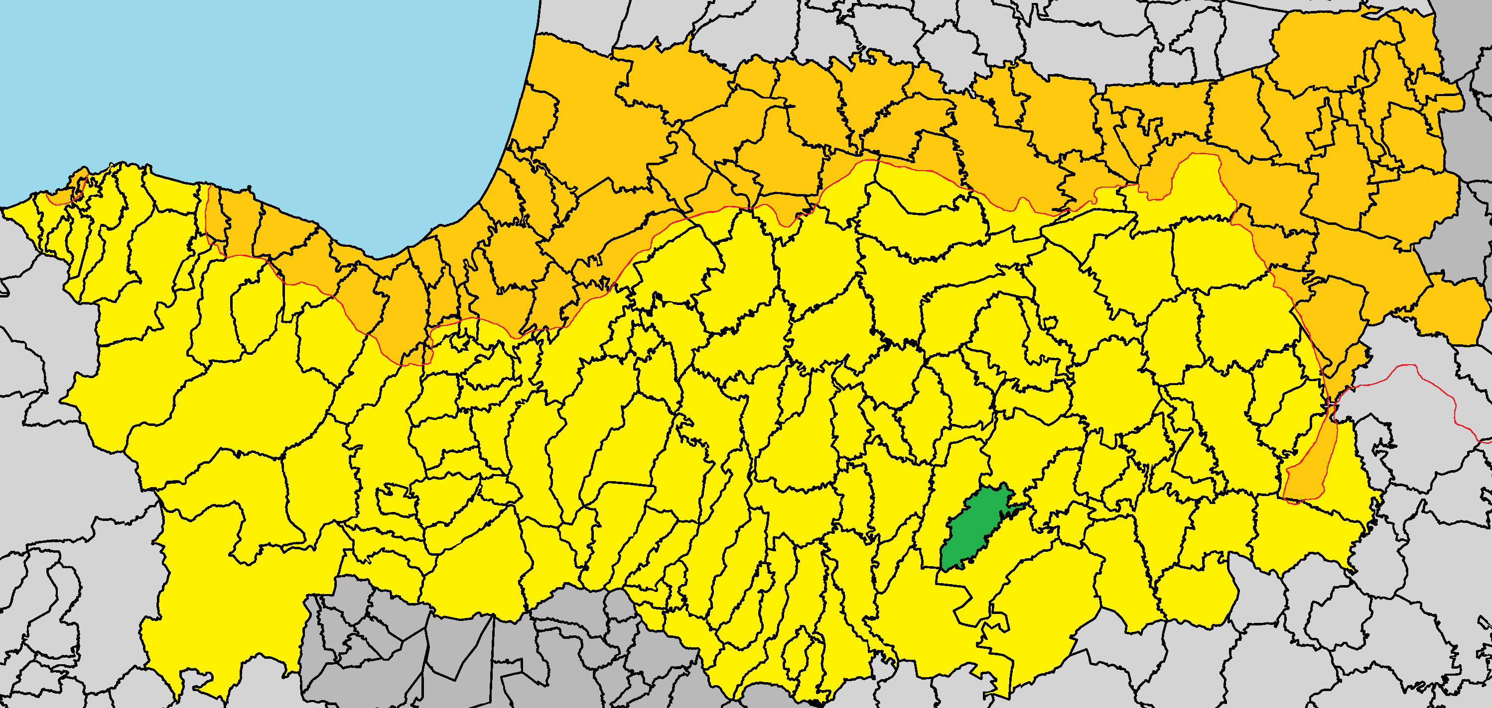 Kampia in Nicosia District.